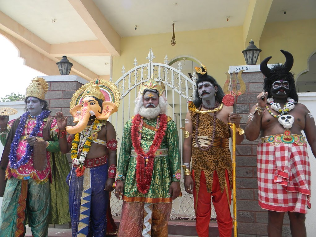 Vinayaka Chavithi festival at Ganikapudi village for the year 2012. Villagers in Lord Vishnu, Lord Vinayaka, Lord Bramha, Lord Siva, and Asura roles.